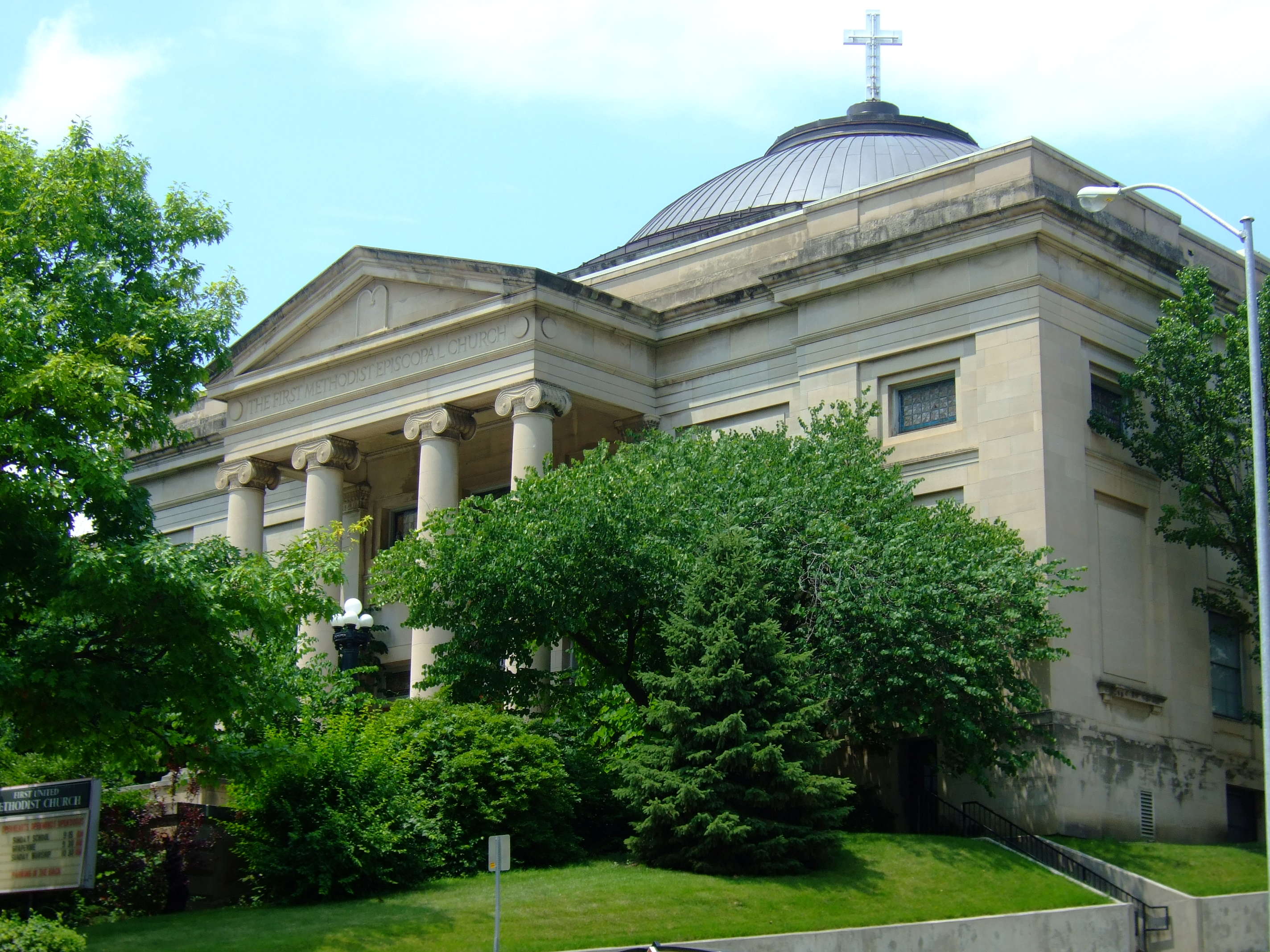 First Methodist Episcopal Church (1905-08) at 10th and Pleasant Streets in Des Moines, Iowa. Added to the National Register of Historic Places in 1984.